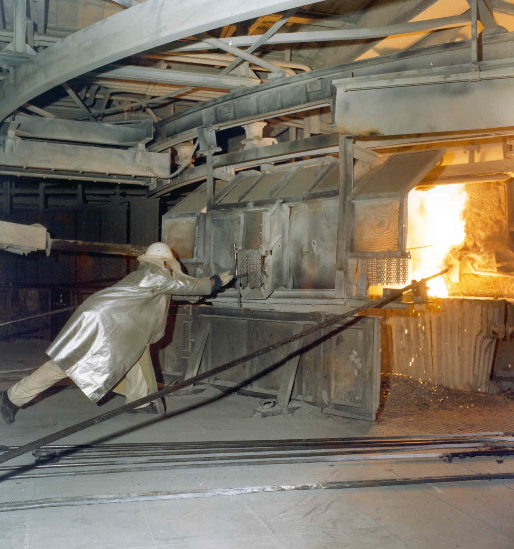 Carbidabstich Chemiepark Knapsack, Huerth, Germany